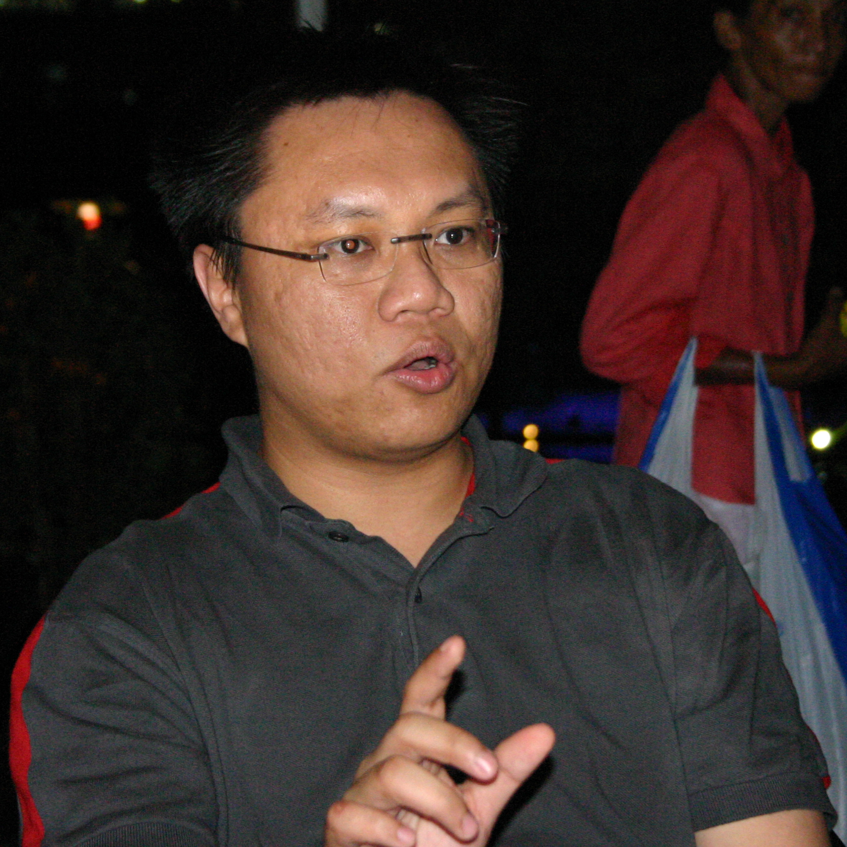 James Seng Ching Hong, an Internet pioneer from Singapore.